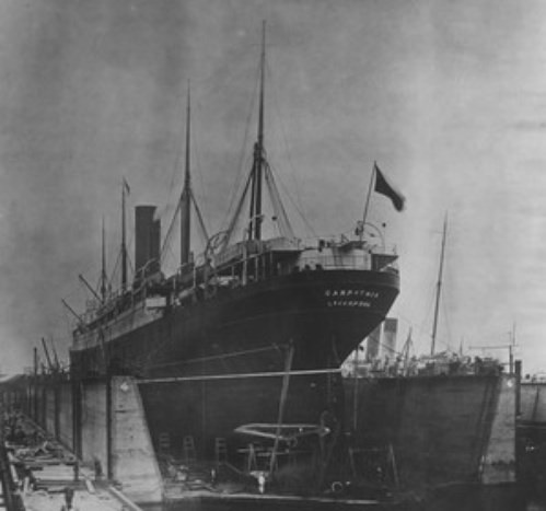 RMS Carpathia in dry dock, Erie Basin, Red Hook, New York.